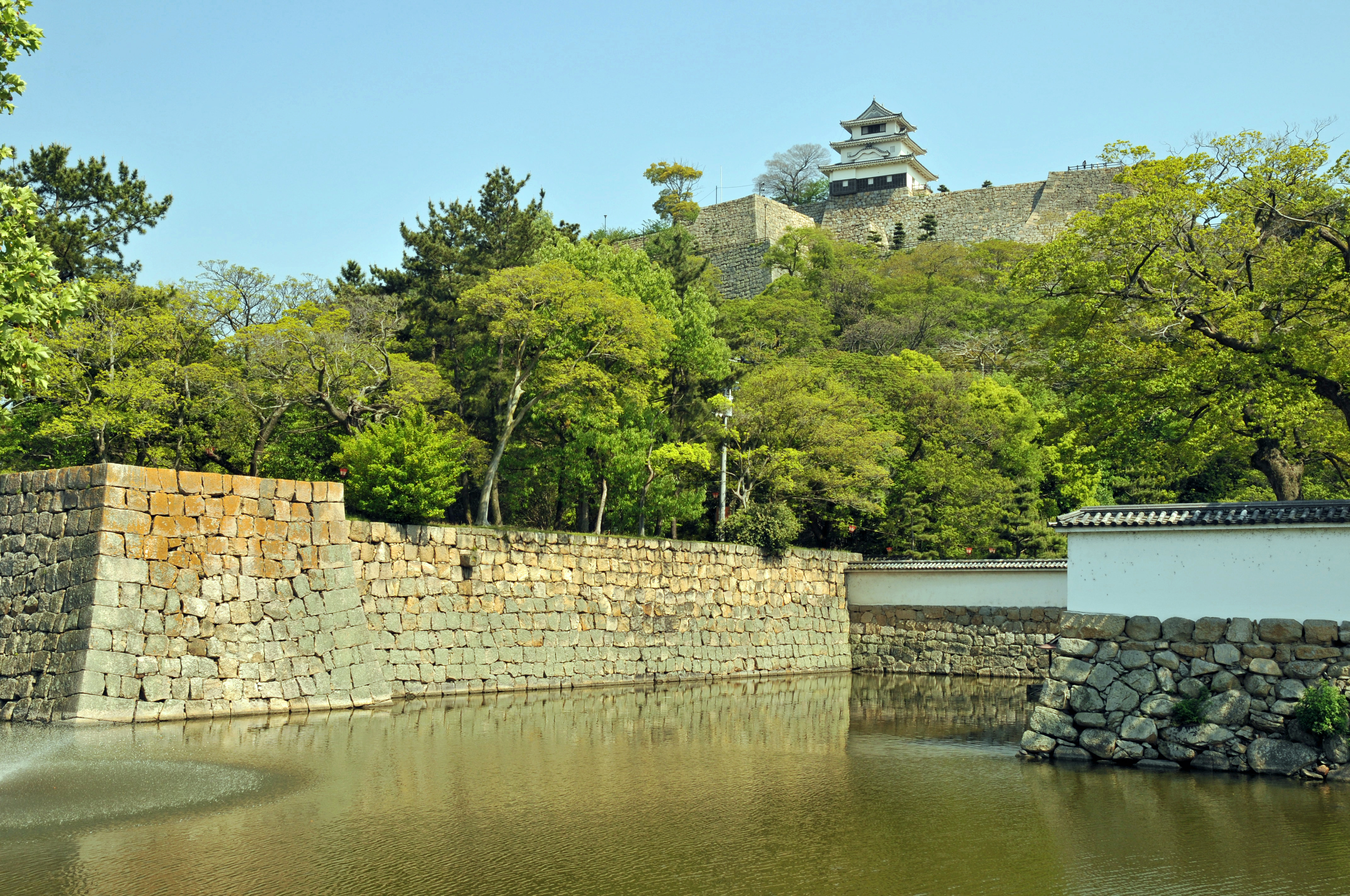 Moat, Stone wall and the Keep(Japan's national important cultural property), Marugame Castle